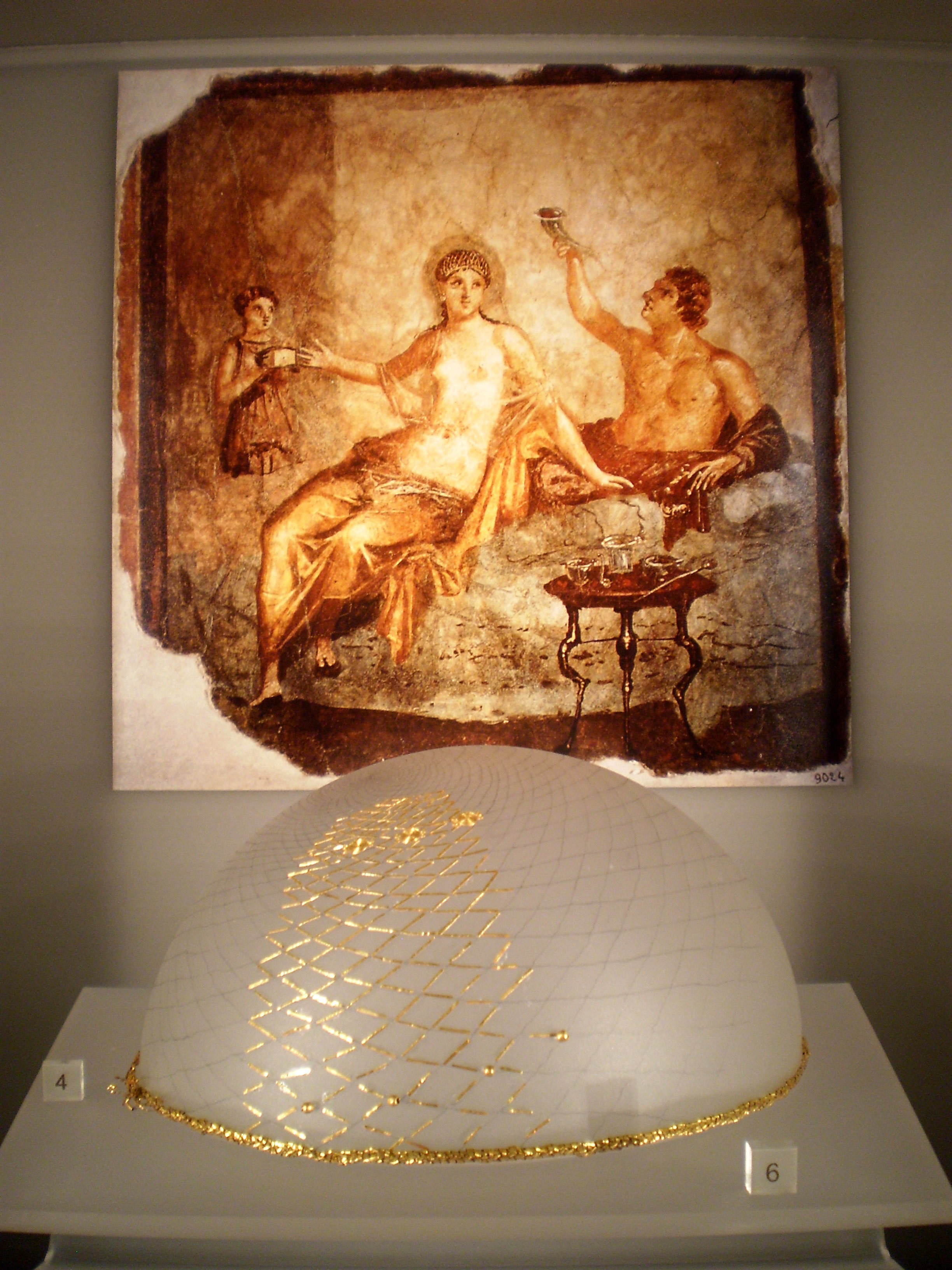 Palazzo Massimo, Rome - Golden hairnet similar at that of the Roman matrona on the fresco found in Herculaneum, now in the Museo Archeologico Nazionale in Naples.